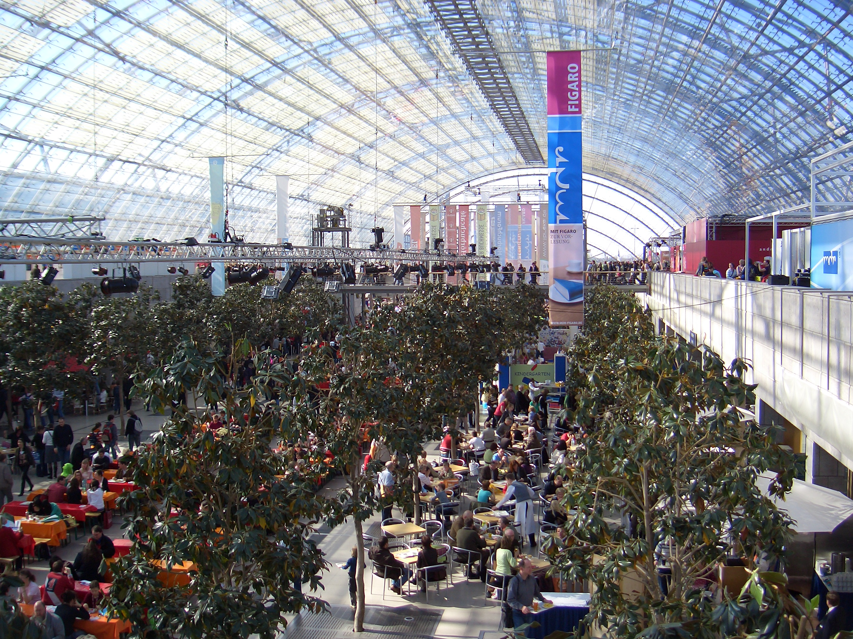 Entrance West at the Leipzig Book Fair 2008